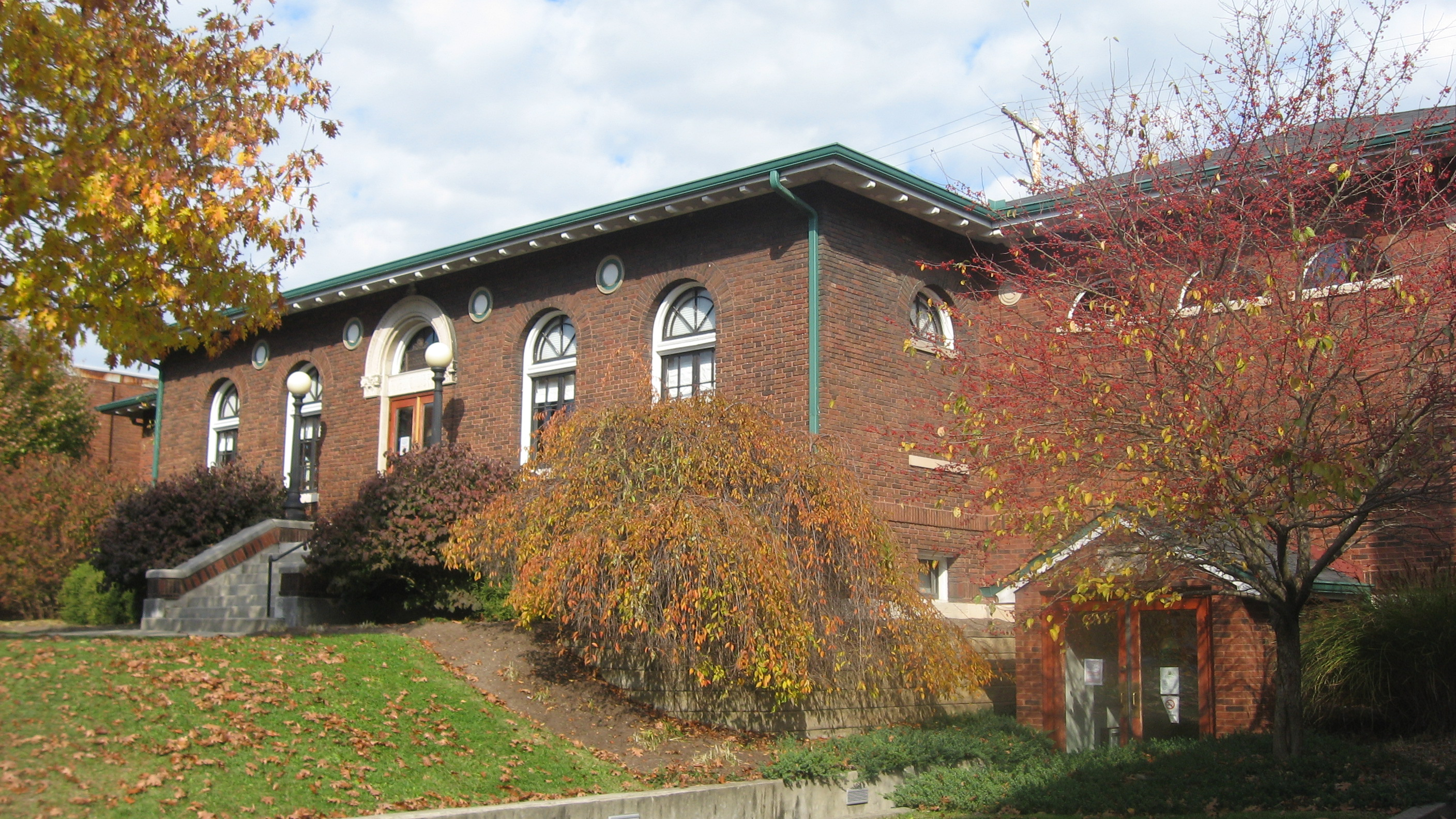 Front of the Aurora Public Library, located at 414 Second Street in Aurora, Indiana, United States. Built in 1914, it is listed on the National Register of Historic Places, and it is part of a Register-listed historic district, the Downtown Aurora Historic District.